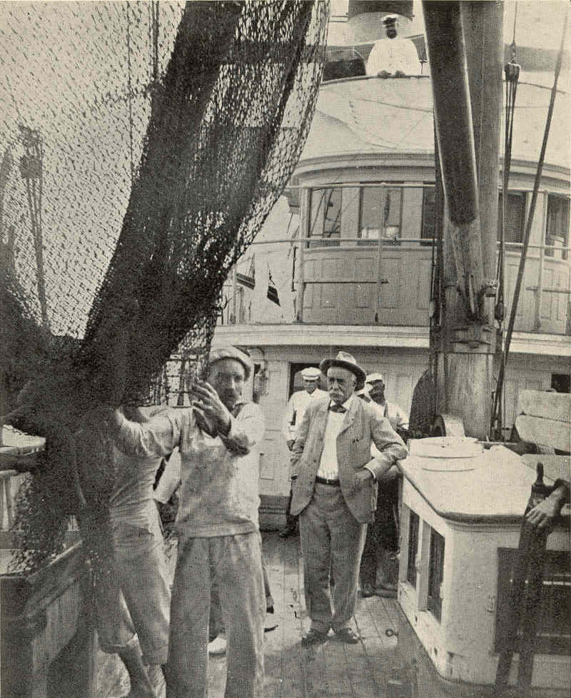 Alexander AGassiz on U.S.S. 'Albatross' in Tropical Pacific, Watching Arrival on Deck of Deep-See Trawl Subject: Agassiz, Alexander, 1835-1910, Naturalists--United States, Albatross (Ship) Tag: People